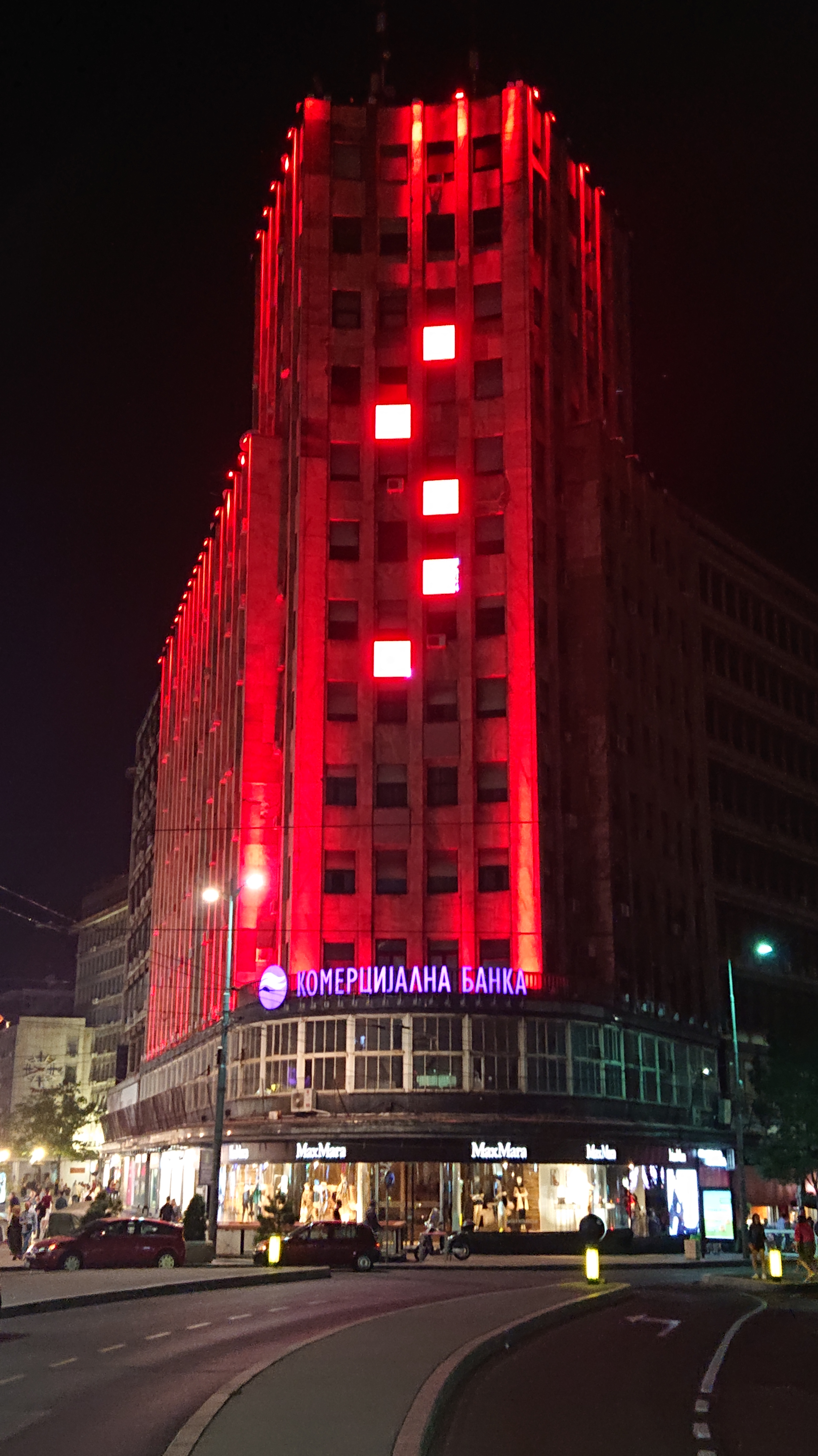 Palata Albanija in Belgrade, at night